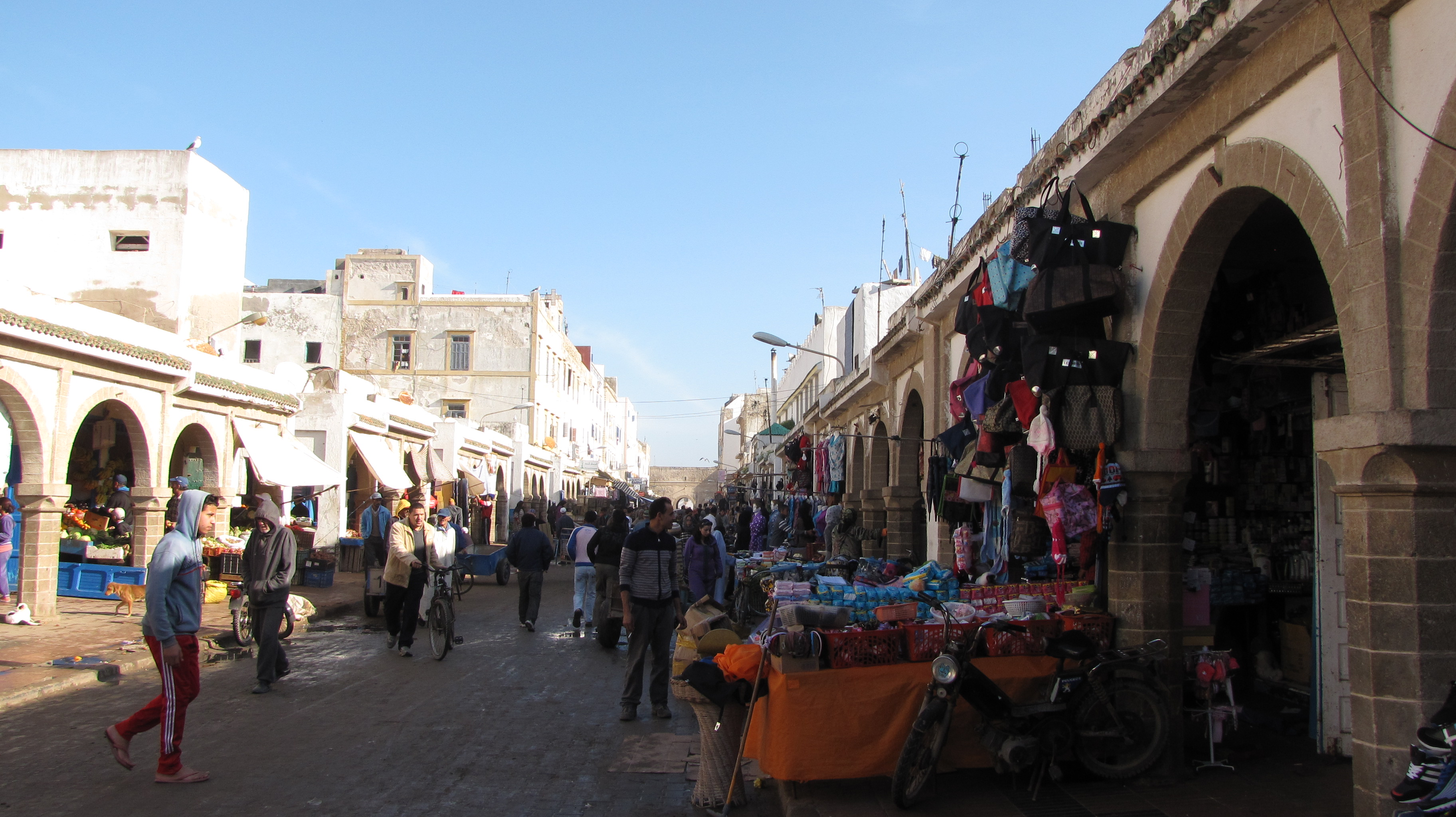 A view in Moroccan city Essaouira in Essaouira province, Marrakech-Tensift-Al Haouz region.